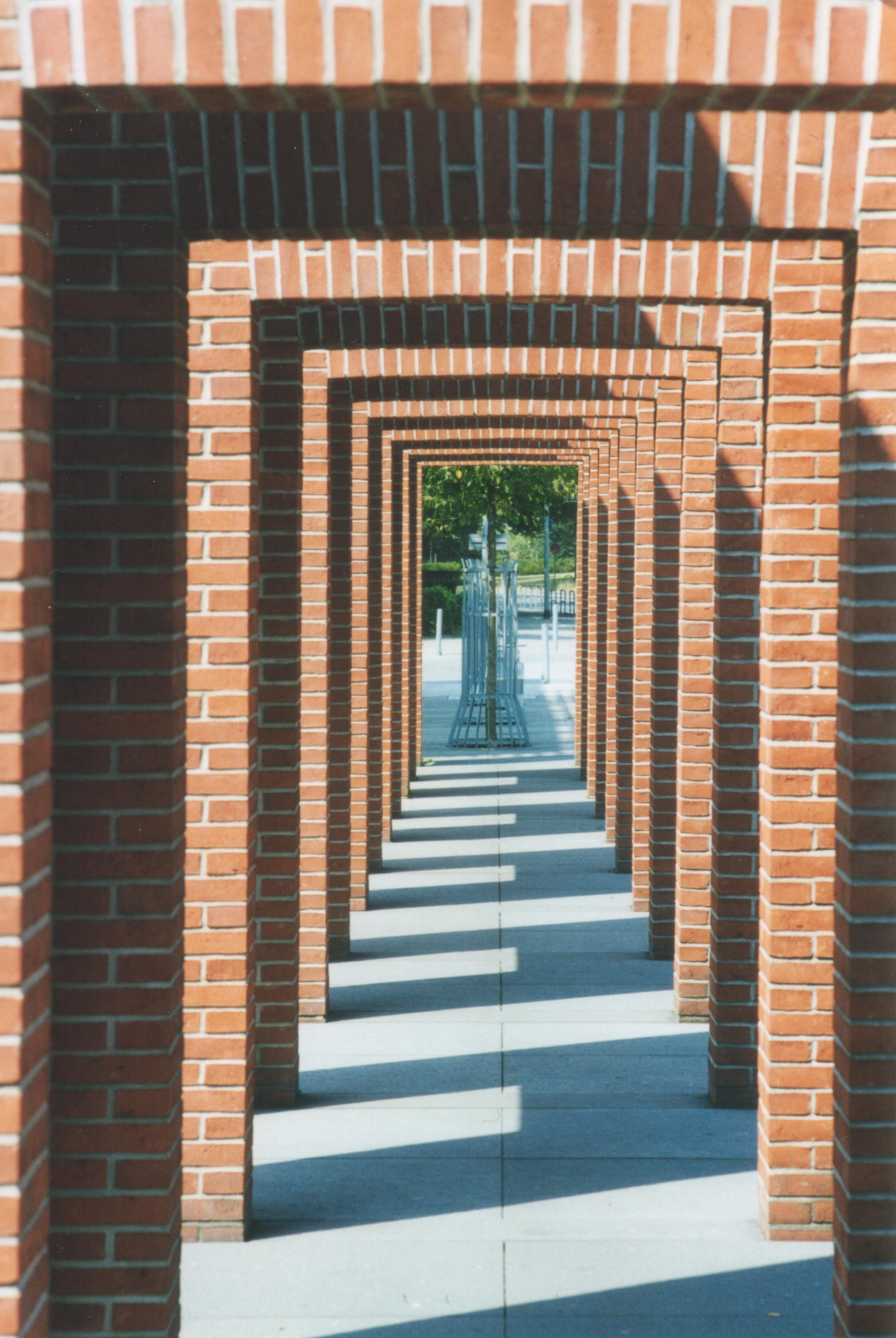 Brick skulture by Per Kirkeby in front of "Die Deutsche Bibliothek" (German National Library) in Frankfurt/Main, Germany